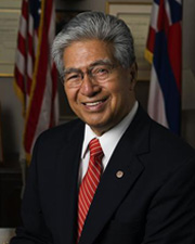 Daniel Kahikina Akaka, a Senator and a Representative from Hawaii; born in Honolulu. From [1].